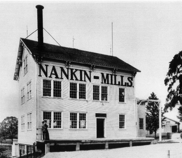 Nankin Mills, showing Henry Ford and Floyd Basset on the porch